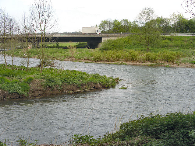 River Sülz flowing into river Agger near Lohmar, Germany. In the background: Autobahn A 3 Cologne – Frankfurt.